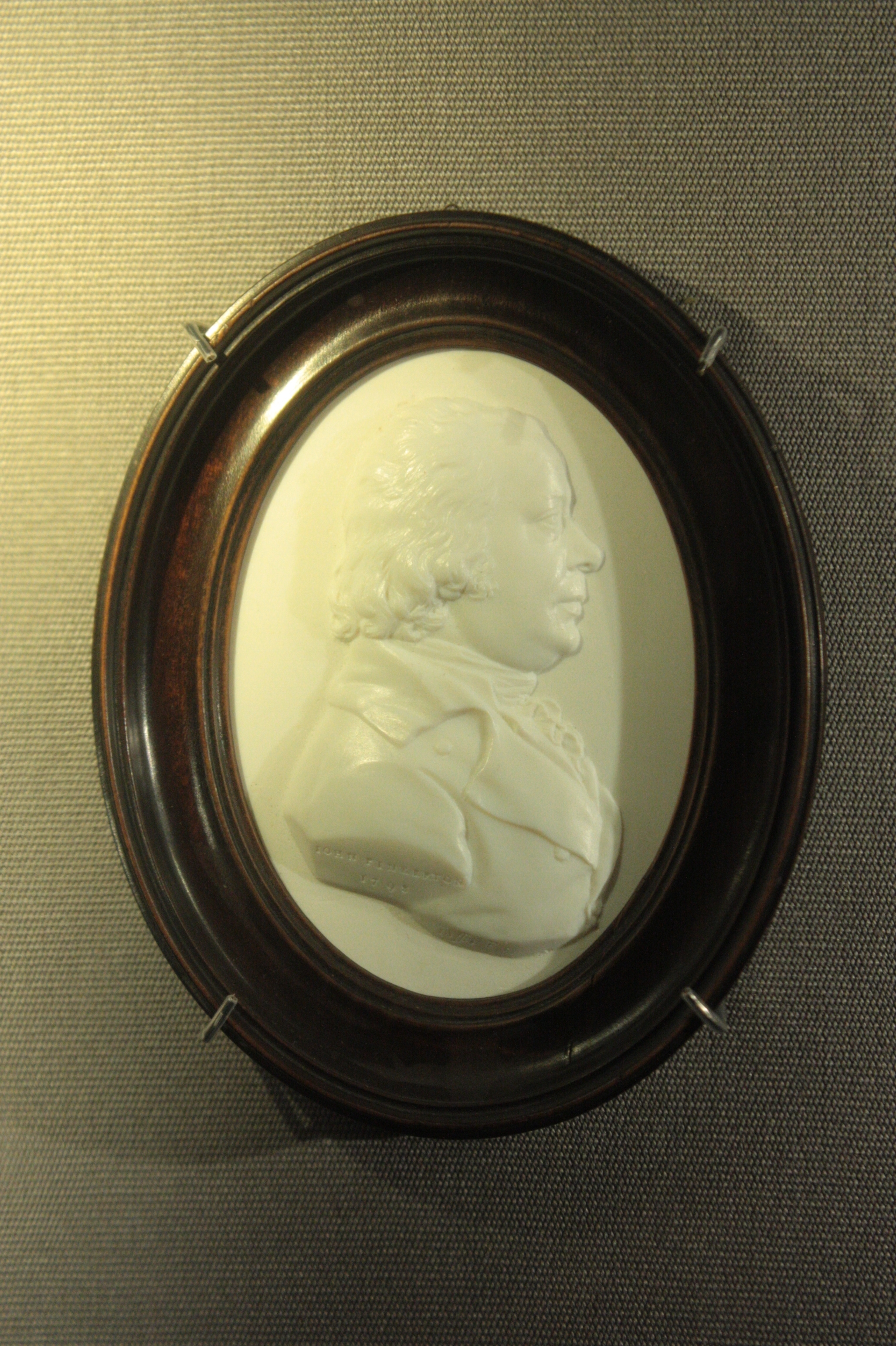 Cameo of John Pinkerton, 1798, Scottish National Portrait Gallery